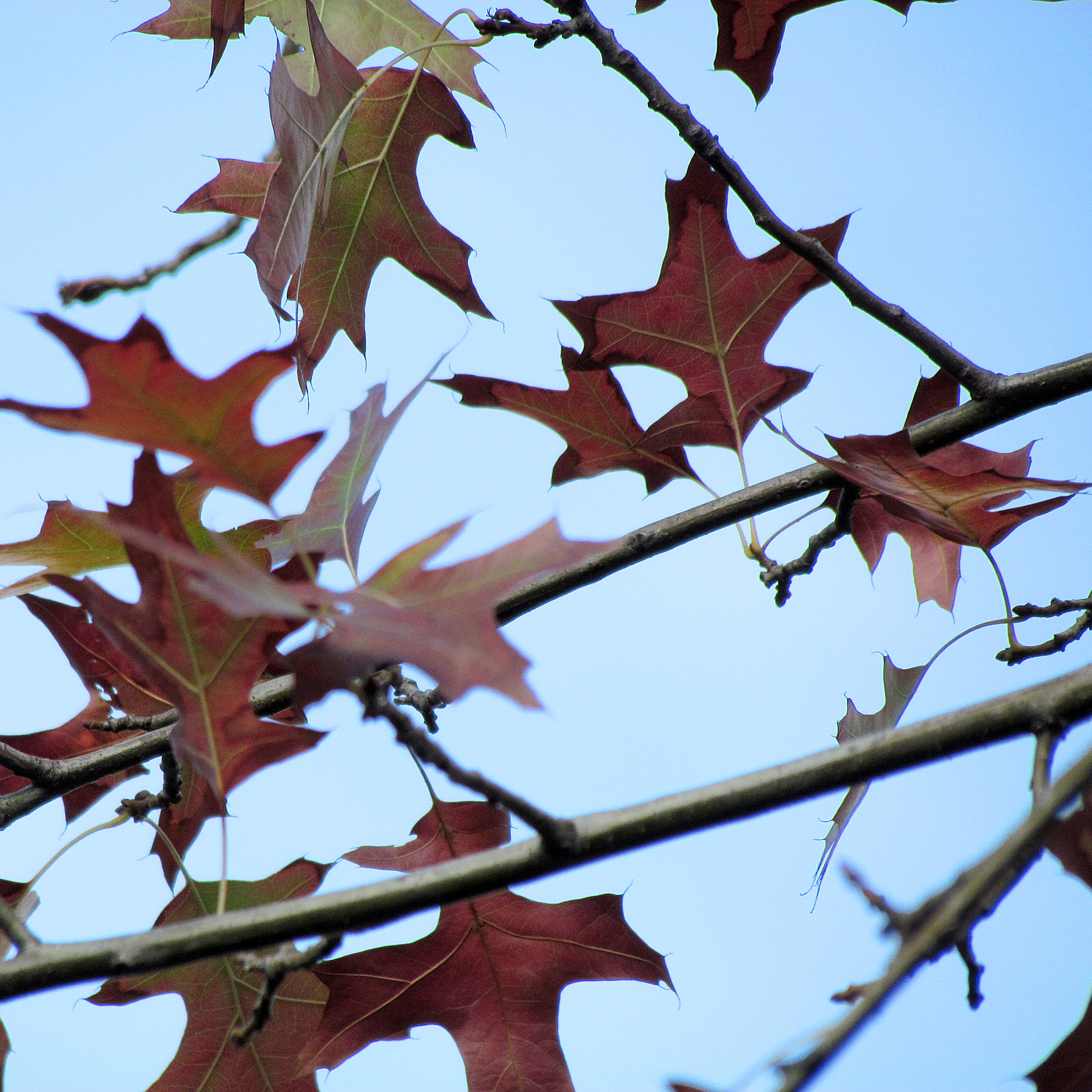 Quercus palustris leaves, Pionirski park, Belgrade